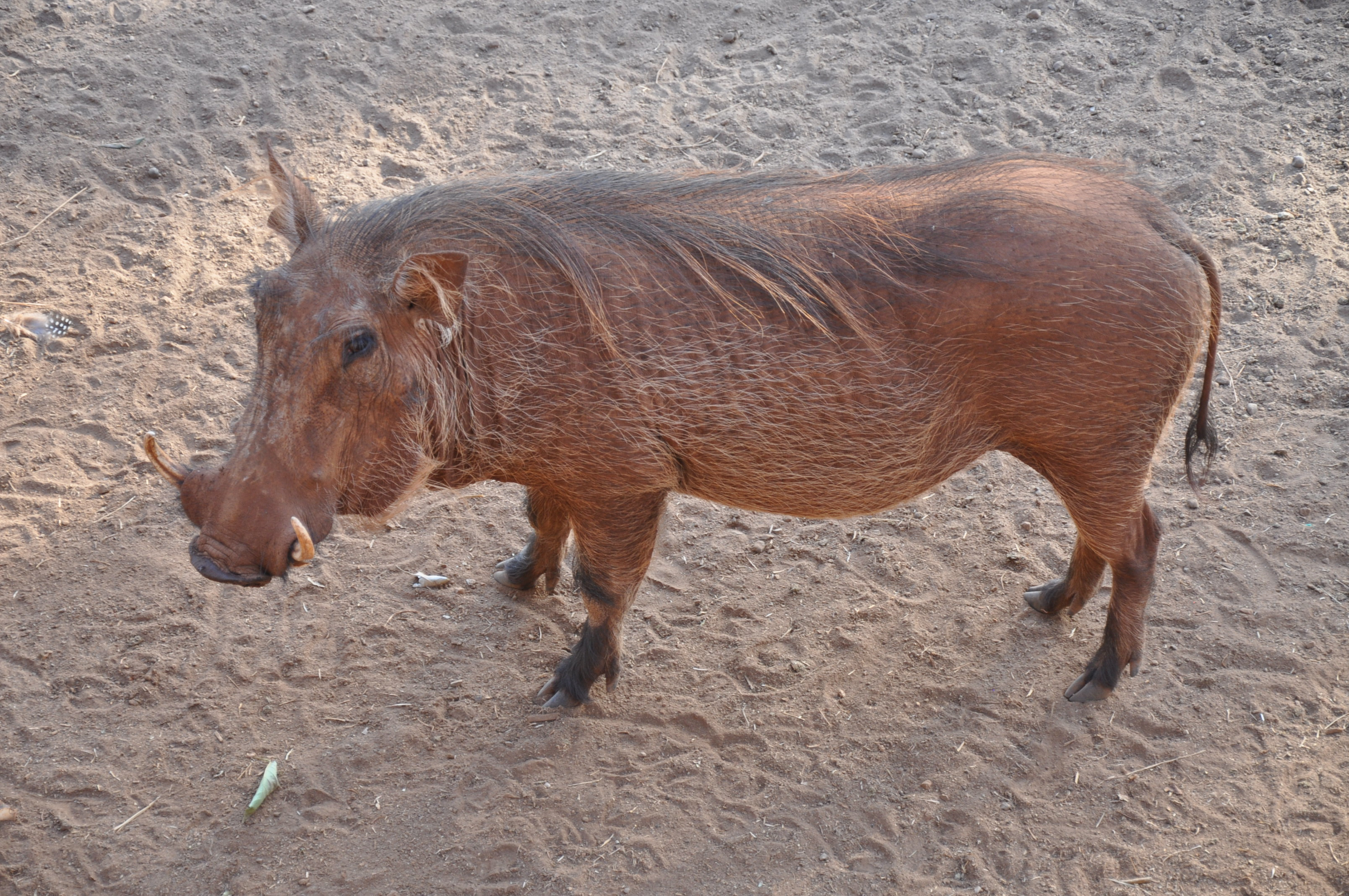 The warthog or common warthog (Phacochoerus africanus, "African Lens-Pig") is a wild member of the pig family that lives in Africa. The common name comes from the four large wart-like protrusions found on the head of the warthog, which serve the purpose of defense when males fight. Although warthogs are commonly seen in (and associated with) open grasslands, they will seek shelter and forage in denser vegetation. In fact, warthogs prefer to forage in dense, moist areas when available. The common warthog diet is omnivorous, composed of grasses, roots, berries and other fruits, bark, fungi, eggs, dead animals, and even small mammals, reptiles and birds. The diet is seasonably variable, depending on availability of different food items. Areas with many bulbs, rhizomes and nutritious roots can support large numbers of warthogs. Warthogs are powerful diggers, using both heads and feet. When feeding, they often bend the front legs backwards and move around staying on the knees. Although they can dig their own burrows, they commonly occupy abandoned burrows of aardvarks or other animals. The warthog commonly enters burrows "back-end first", with the head always facing the opening and ready to burst out as needed. Warthogs are fast runners and quite capable jumpers. They will often run with their tails in the air. Despite poor eyesight, warthogs have a good sense of smell, which they use for locating food, detecting predators and recognizing other animals. Although capable of fighting, with males aggressively fighting each other during mating season, a primary defense is to flee by means of fast sprinting. The main warthog predators are humans, lions, leopards, crocodiles, and hyenas. Cheetahs are also capable of catching small warthogs. However if a female warthog has any cubs to defend she'll defend them very aggressively. It had been reported that warthogs have given lions deep, serious, deadly wounds, which sometimes end with the lion bleeding to death [Adapted from ]